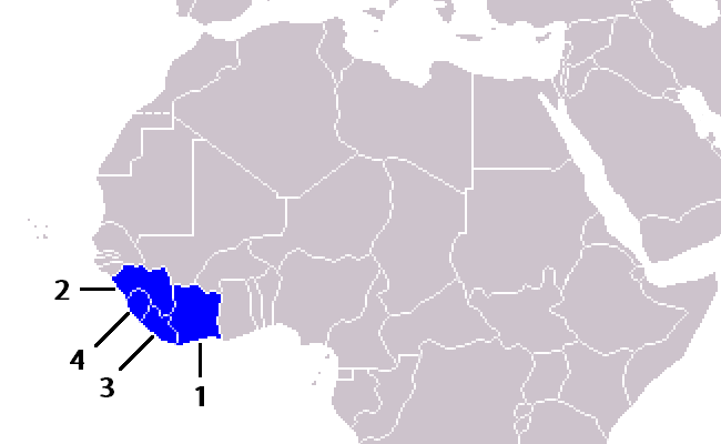 Map of the Mano River Union showing Côte d'Ivoire (1), Guinea (2), Liberia (3) and Sierra Leone (4).